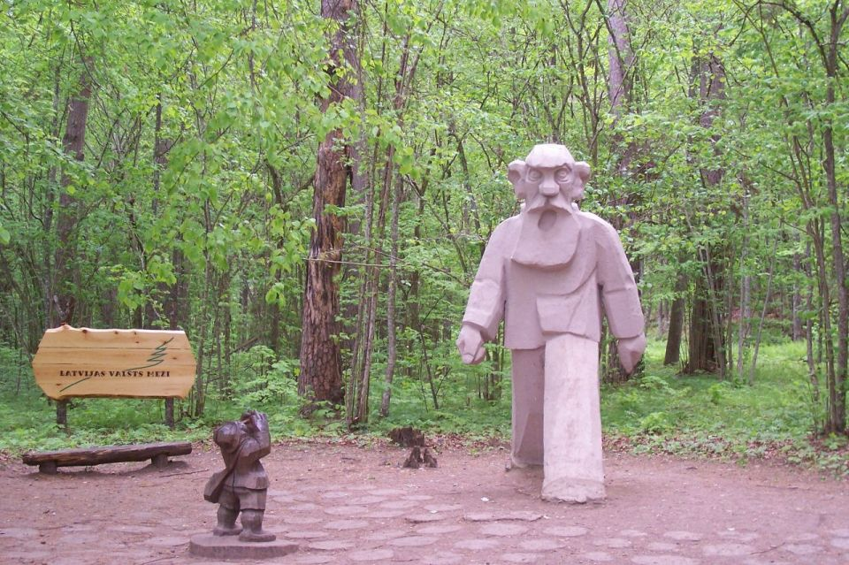 Photo de Spriditis et Lutausis dans le parc de Tervete en Lettonie. Photo of Spriditis and Lutausis in Tervete's park (Latvia). I took the photo by myself in Tervete park, I think there is no low protecting the sculptures in the park as cameras are not prohibited.